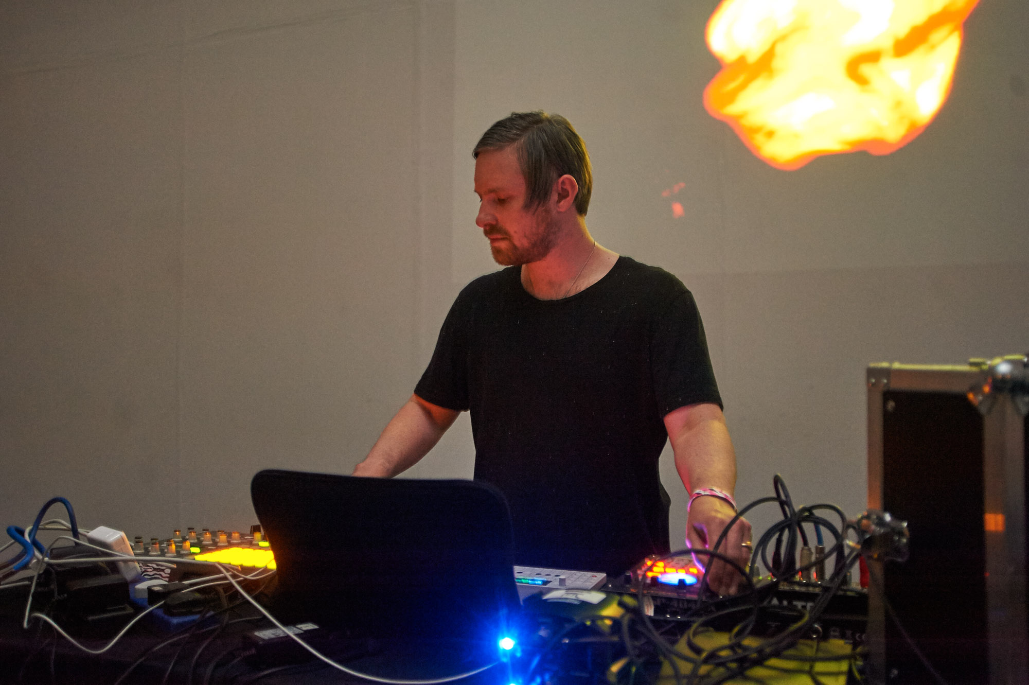 July 24, 2015